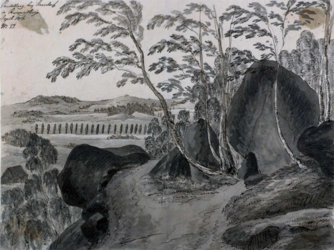 Prudelberg bey Stonsdorf in Riesengebürge Septb. 1816 No. 27